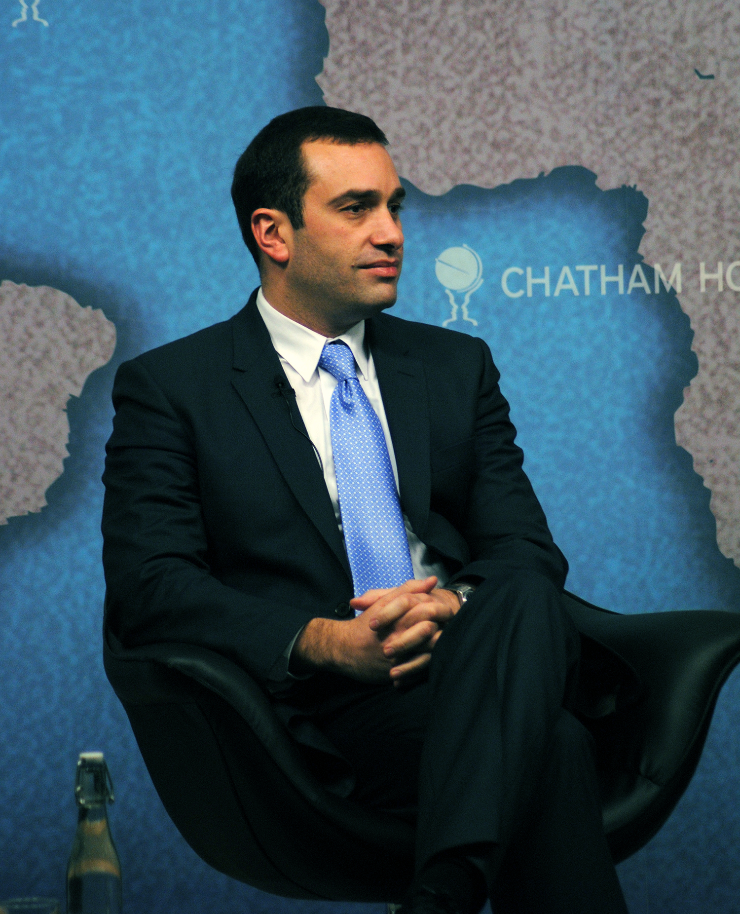 Georgia's Democratic Path: Past, Present and Future, 29 January 2013